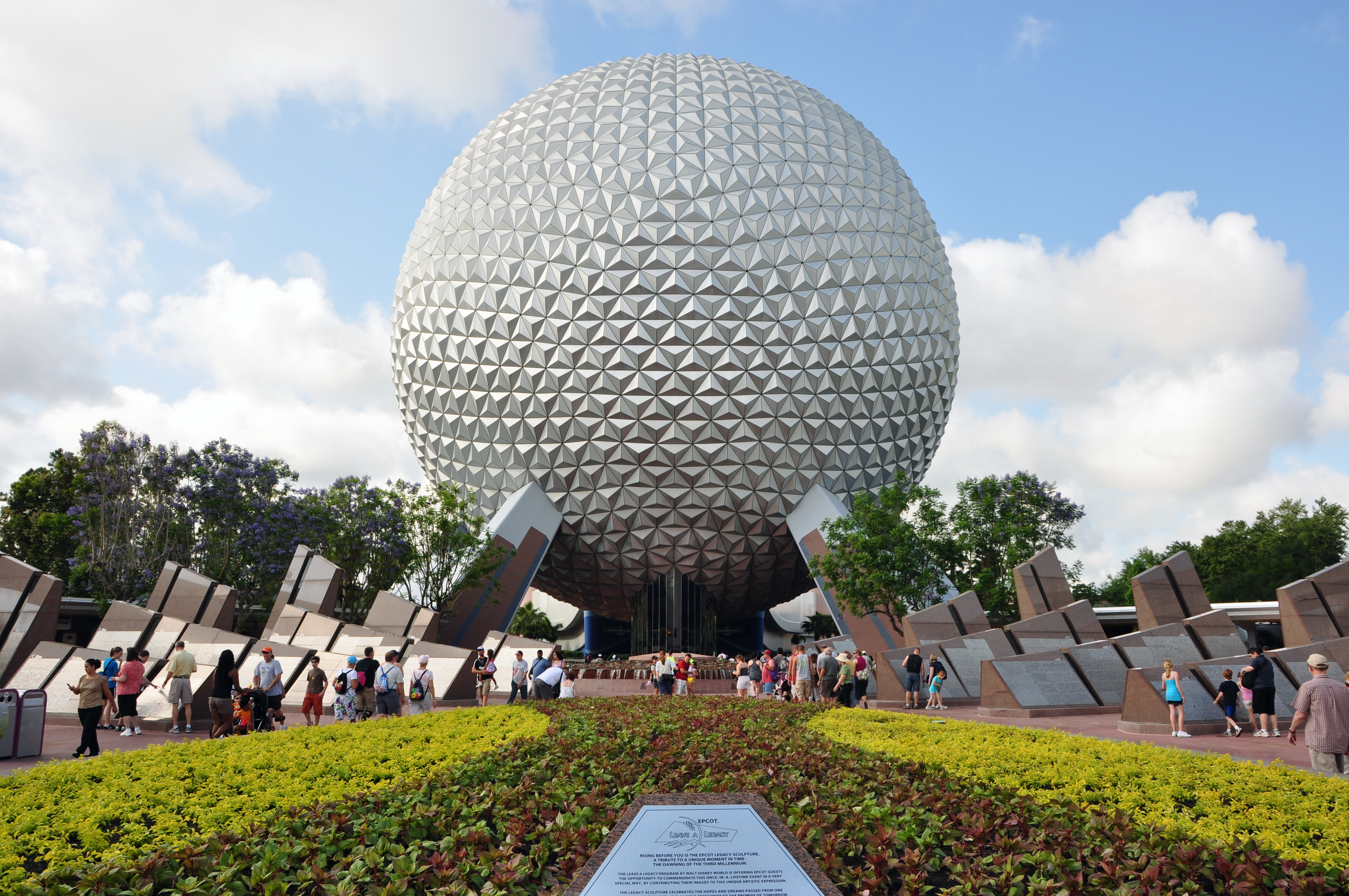 Epcot Spaceship Earth Walt Disney World Orlando 2010